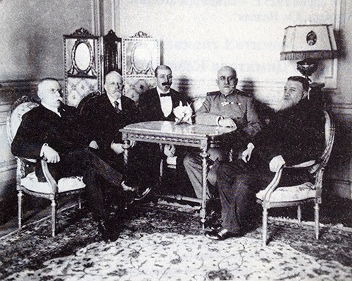 Radoslavov's government during the First World War, 1914–1918.